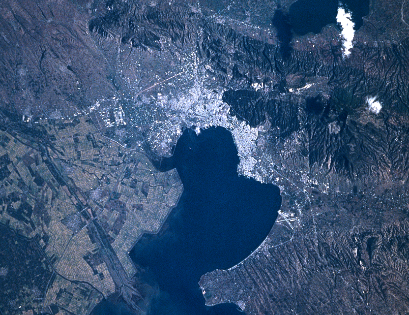 The city of Thessaloniki in Greece from space.